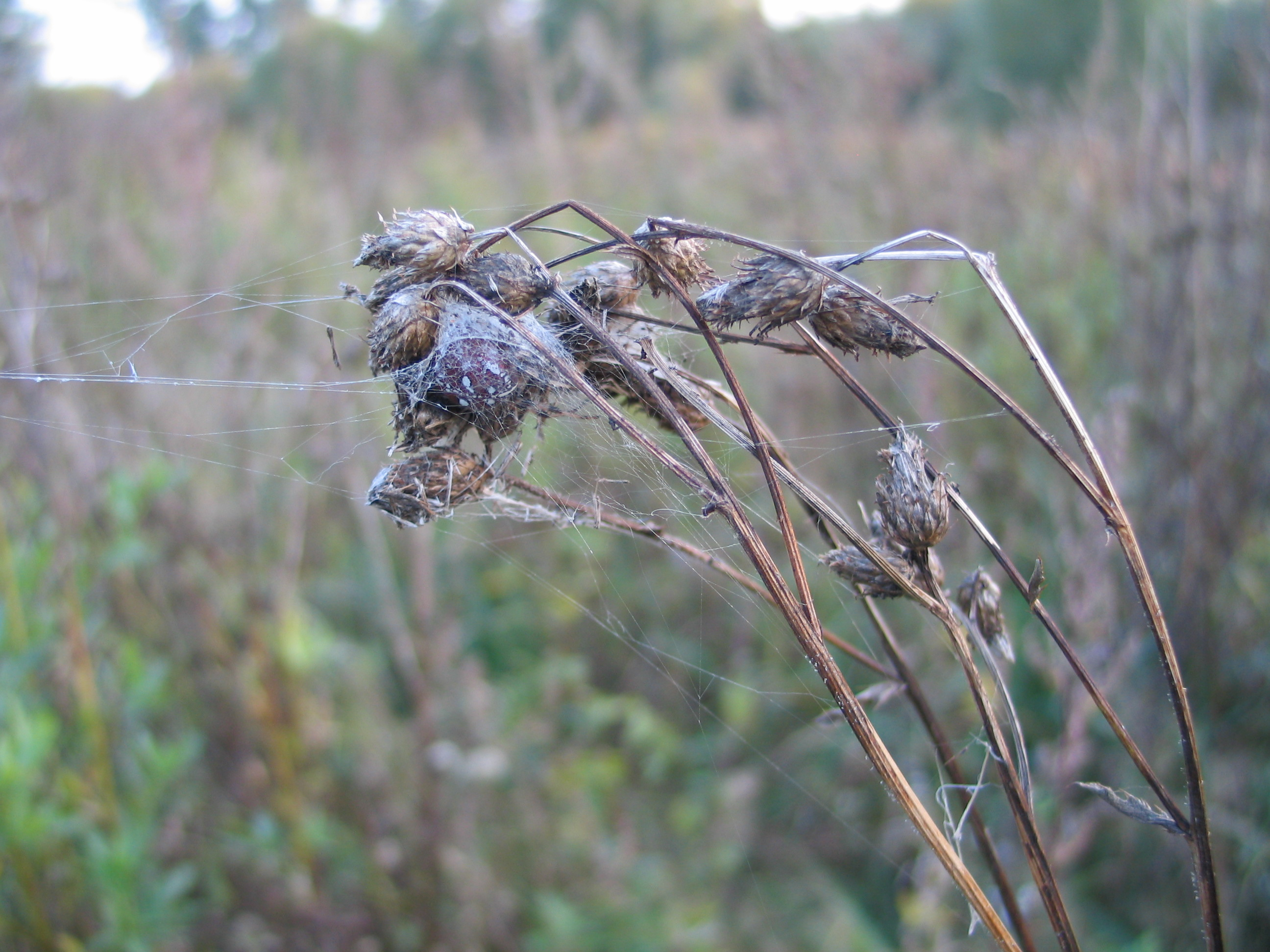 Spider silk. Own photo.